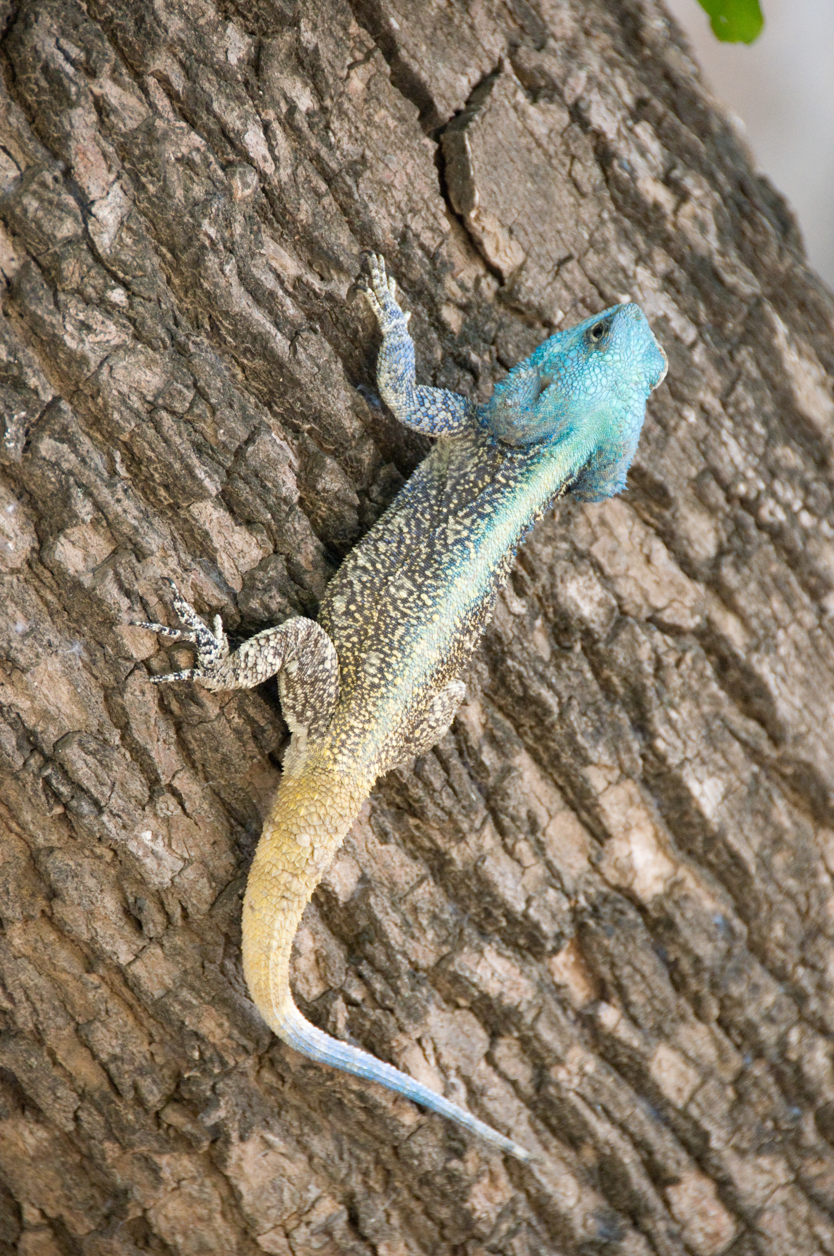 Southern Tree Agama (Acanthocercus atricollis) Dysmorodrepanis 23:09, 28 May 2008 (UTC)